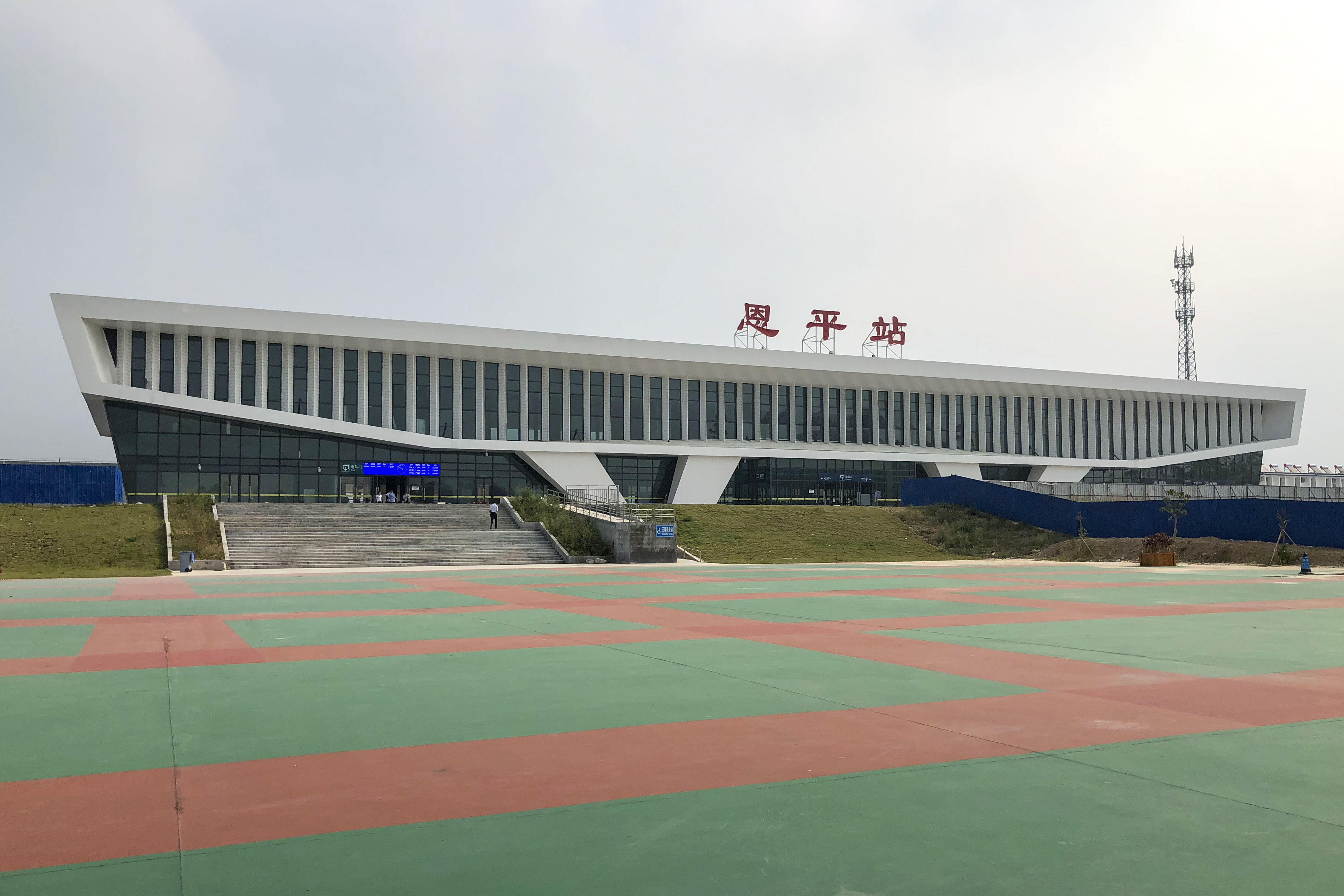 The facade is inspired from early airplanes, like the ones flown or built by Feng Ru (also known as Fung Joe Guey), the pioneering aviator from Enping.